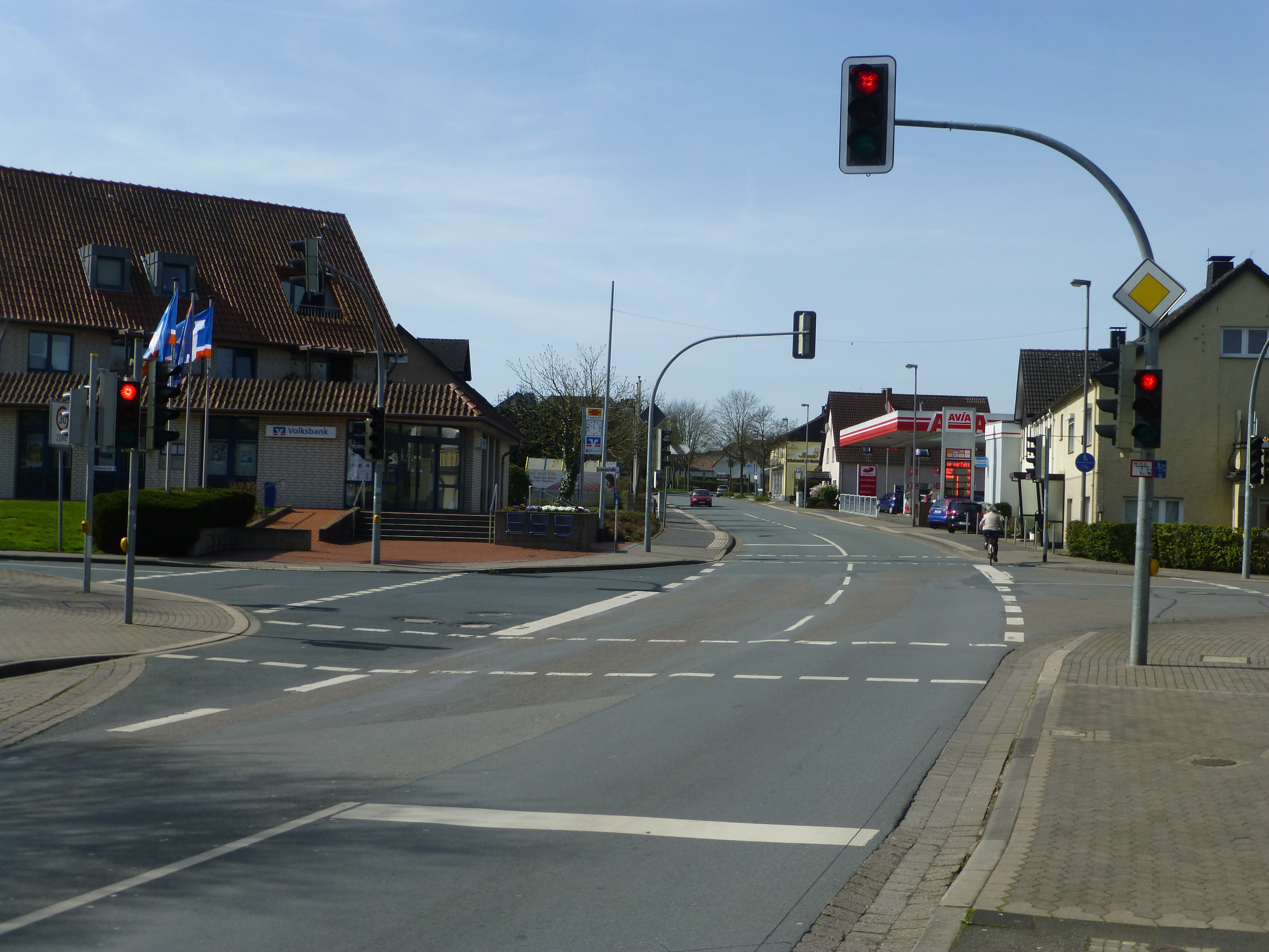 Knetterheide, Werl-Aspe, Bad Salzuflen, Germany.